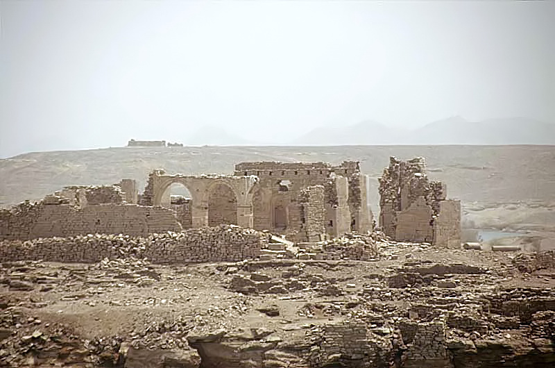 Byzantine Cathedral on the Island of Qasr Ibrim, Lake Nasser, Egypt